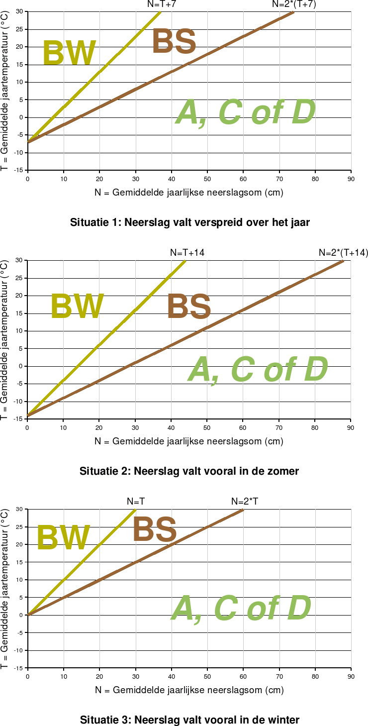 Aridity-index of Köppen (Dutch text) Source: 4th edition of Modern Physical Geography by Strahler & Strahler (page 158).